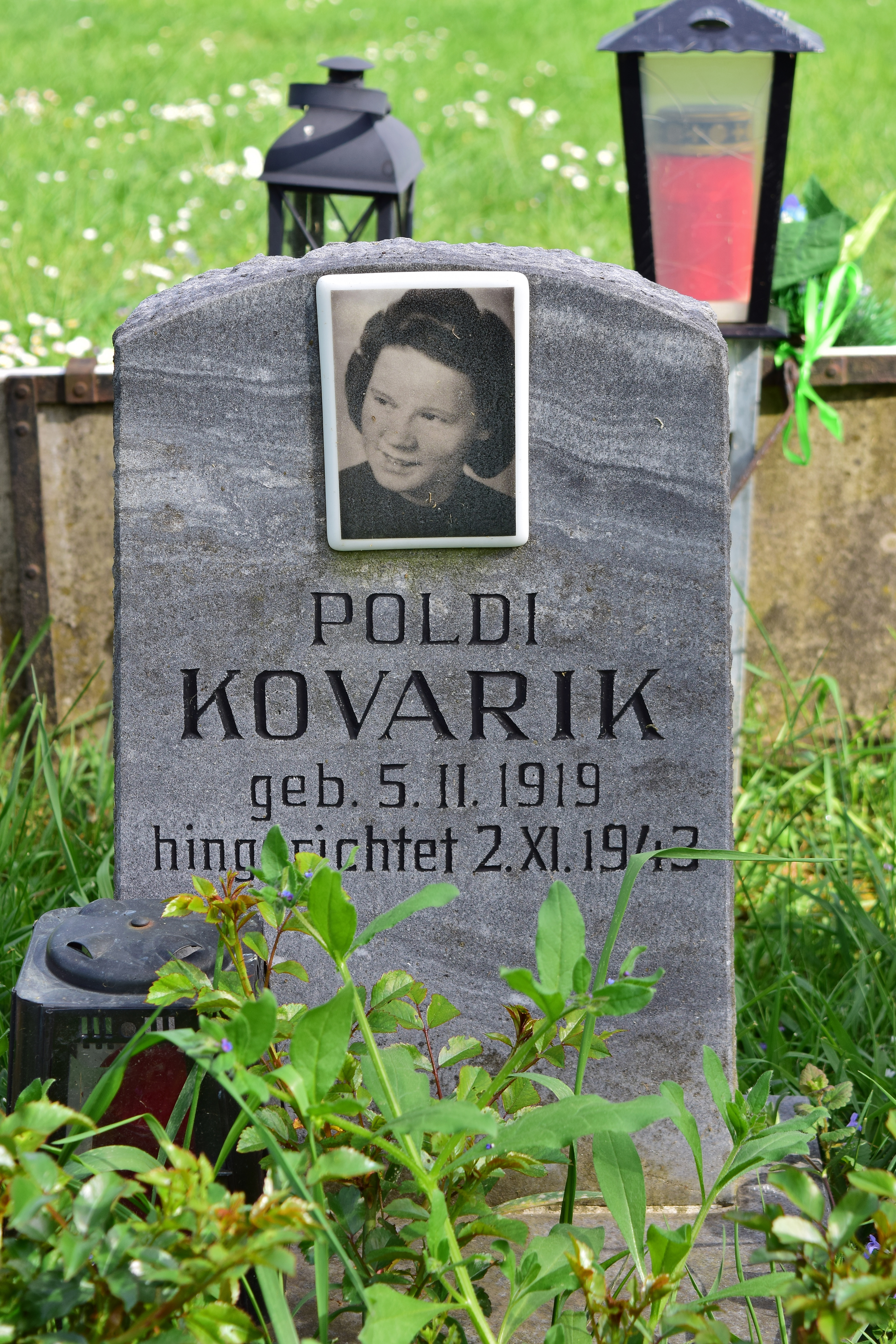 Gravestone of Leopoldine Kovarik at the Cemetery and Memorial for Victims of NS-Justice at the Wiener Zentralfriedhof